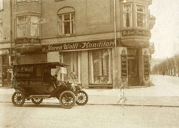 Karen Volf's "konditori" (bakery) in Hellerup, Denmark, c. 1900.